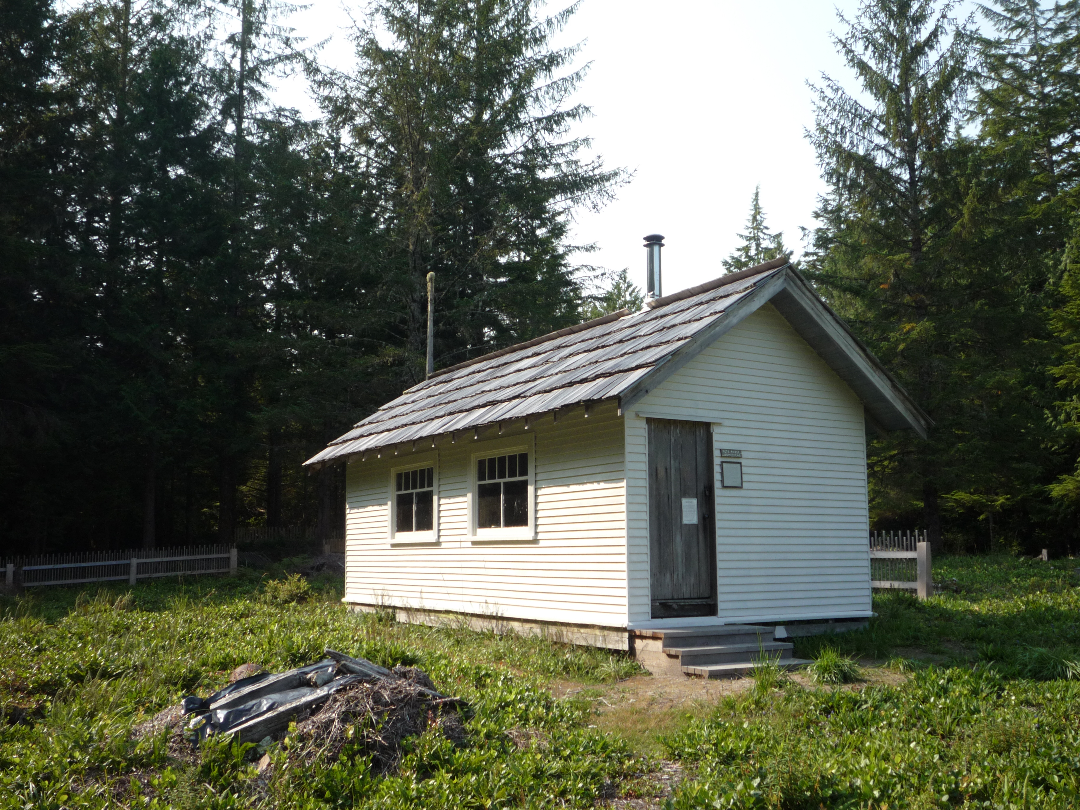 Peter Roose HomesteadThe two-room house has had a new roof put on by the Park Service. Looking in the windows, the rear room has floral wallpaper and a simple vaulted ceiling.